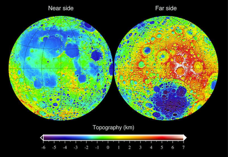 The topography of the Moon referenced to a sphere with a radius of 1737.4 kilometers. Data were obtained from the Lunar Orbiter Laser Altimeter (LOLA) that was flown on the mission Lunar Reconnaissance Orbiter (LRO). The color coded topography is displayed in two Lambert equal area images projected on the near and far side hemispheres.